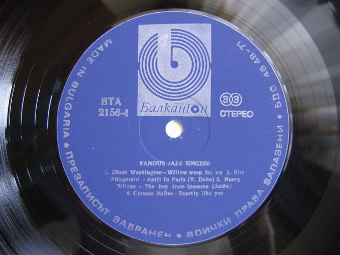 Balkanton record label. Picture taken of the record: Various Artists. Famous Jazz Singers. Balkanton (BTA 2156)